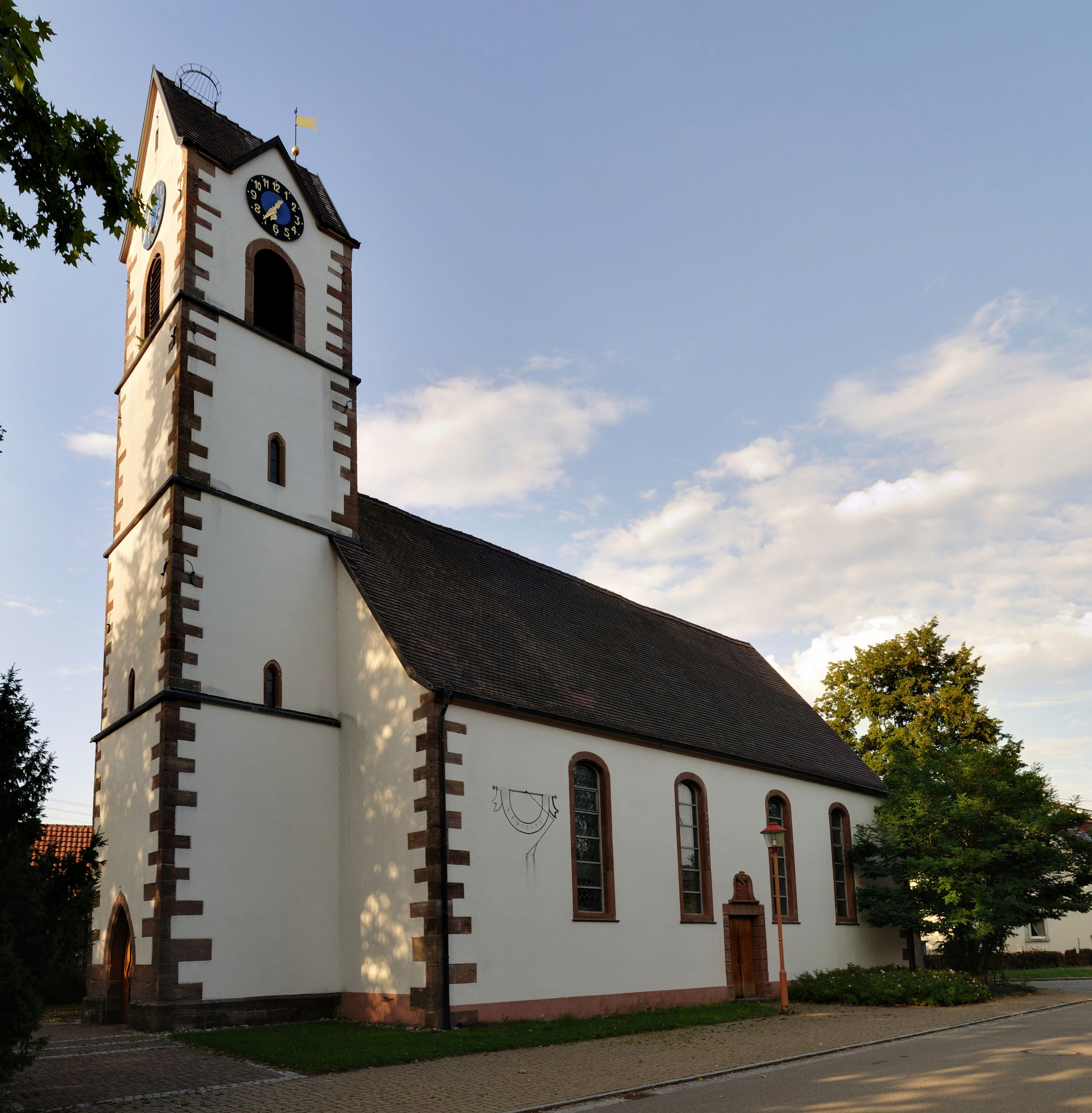 Maulburg: Protestant Church